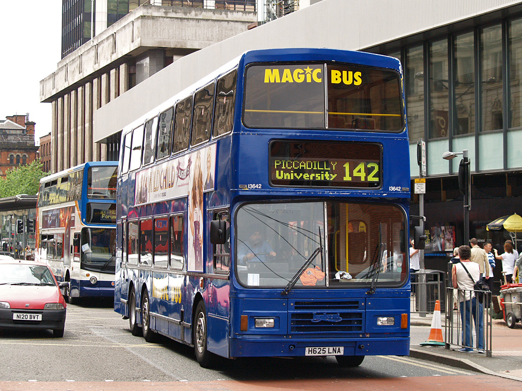 Stagecoach Manchester (originally Citibus Limited of Hong Kong) 13642 H625 LNA, a Leyland ‘Olympian’ ON3R49C18Z4 built 1989 with an Alexander ‘RH’ DPH53/41F body on Portland Street, Manchester at the junction with Parker Street with an East Didsbury (Parrs Wood) to Manchester Piccadilly Gardens via Wilmslow Road 142 service. Friday 25th July 2008